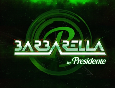 Barbarella by Presidente 2014